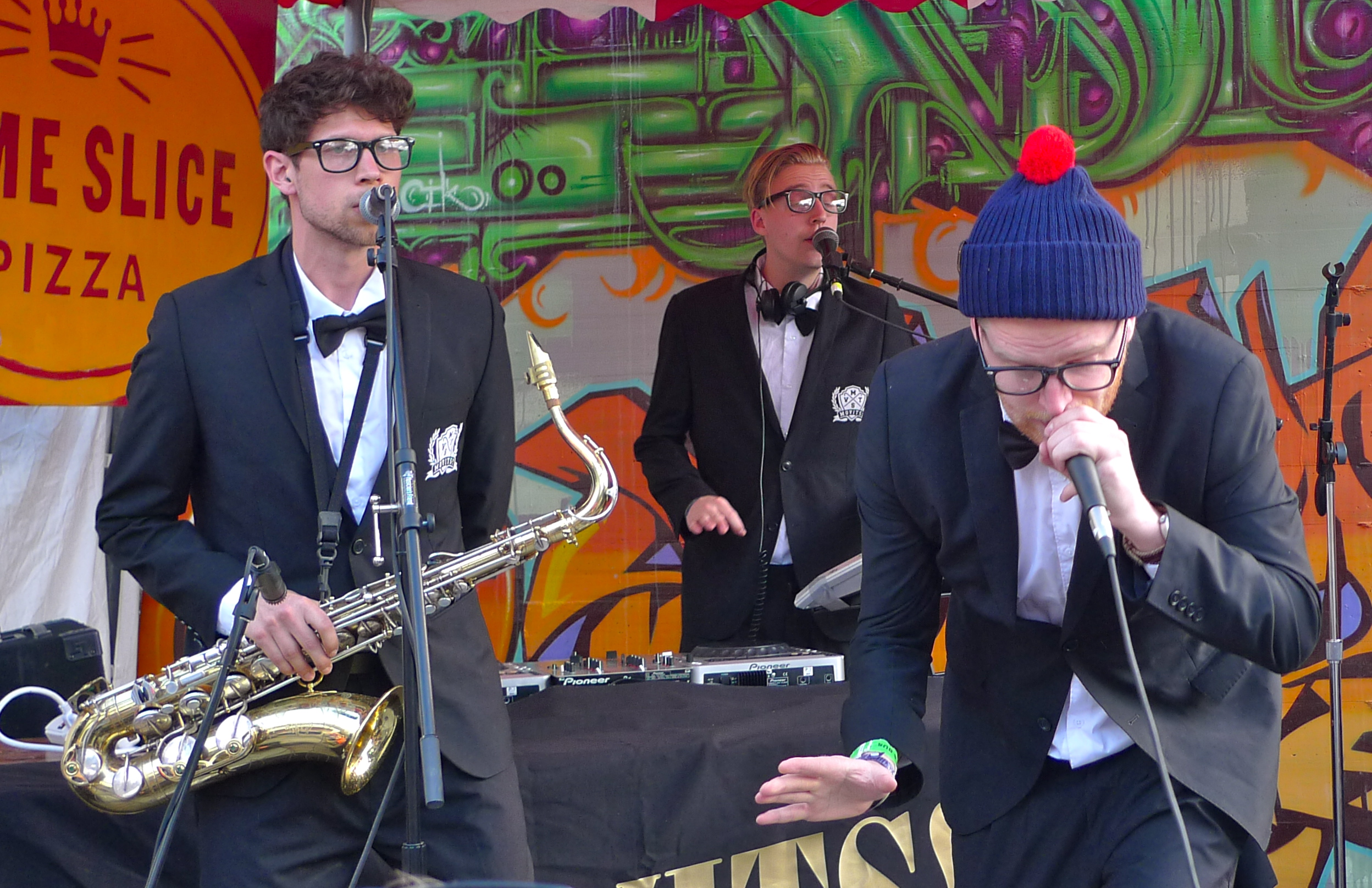 Movits! at the South by Southwest (SXSW) music festival.